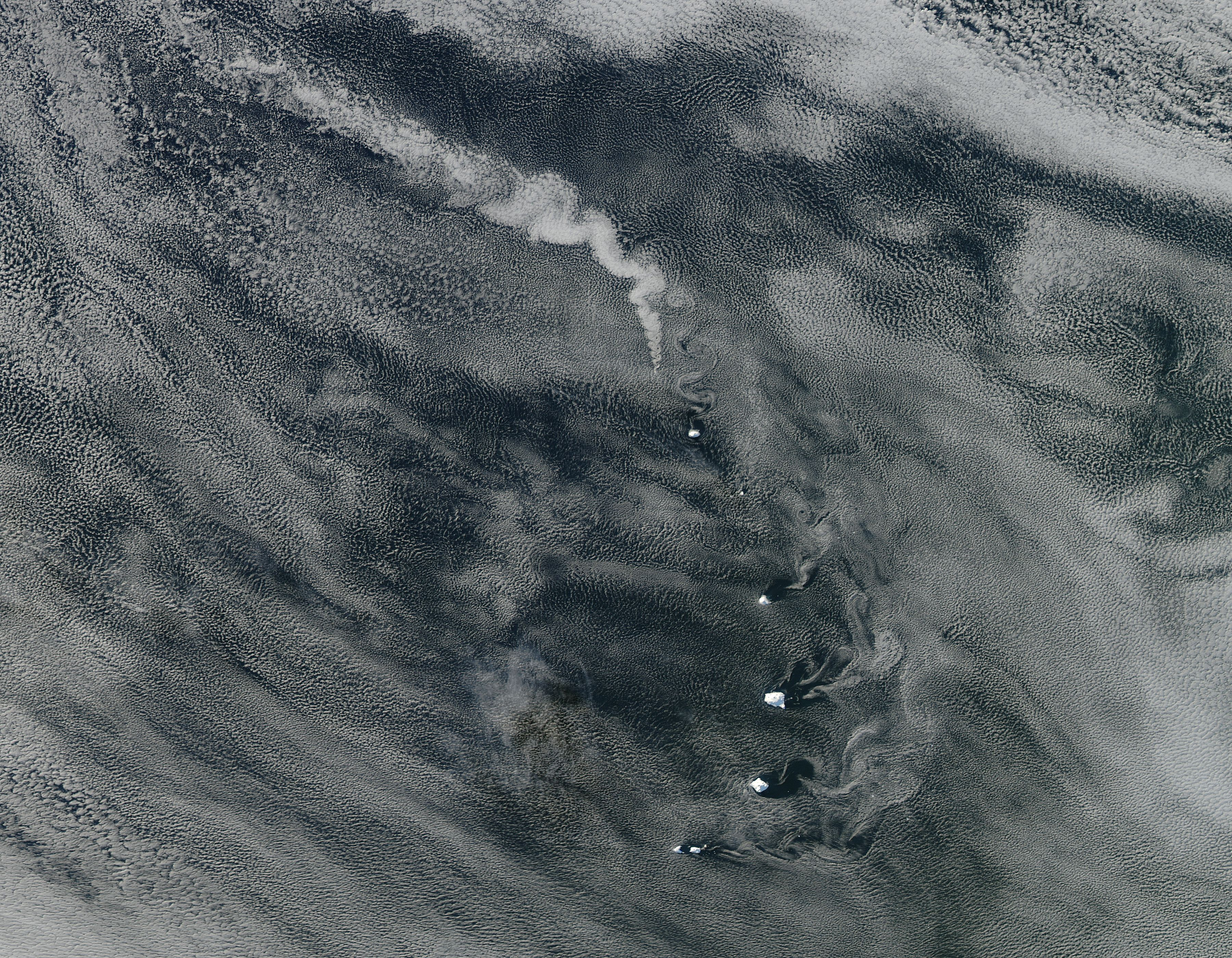 Plume from Zavodovski volcano, South Sandwich Islands. Aqua/MODIS 04/27/201216:20 UTC Credit: NASA/GSFC/Jeff Schmaltz/MODIS Land Rapid Response Team